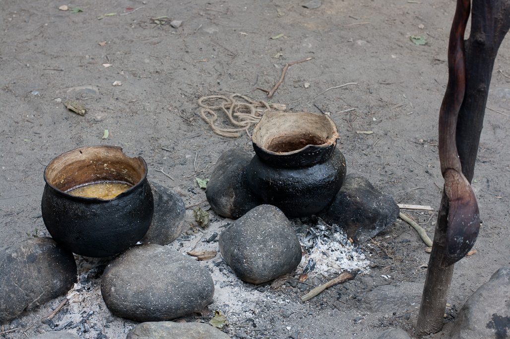 Cooking pots and spoon in Wampanoag village at Plimouth Plantation in Plymouth, MA